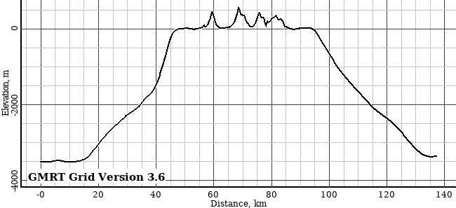 Profile from abyssal plain to top of surface volcano showing major erosion and dissection of volcano top by marine erosion. This is normal for oceanic volcanic islands. Profile is approximately SSW (L) to NNE (R) with a vertical exaggeration of 10x.